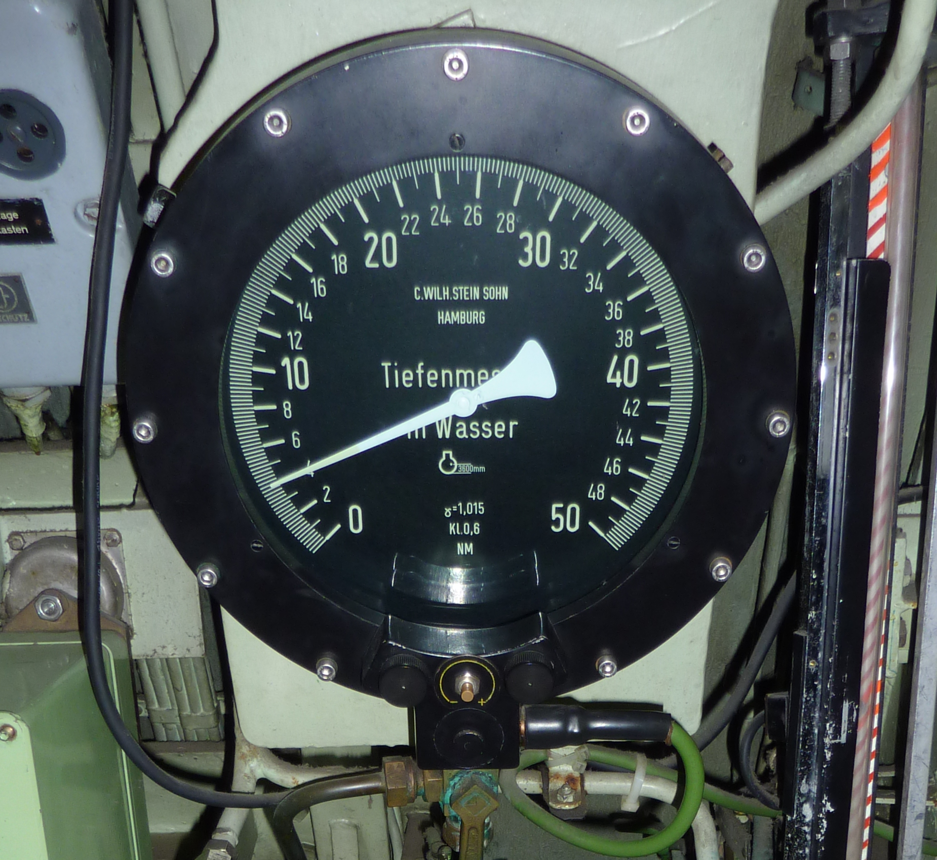 Depth gauge in the German submarine U 9 (Type 205)